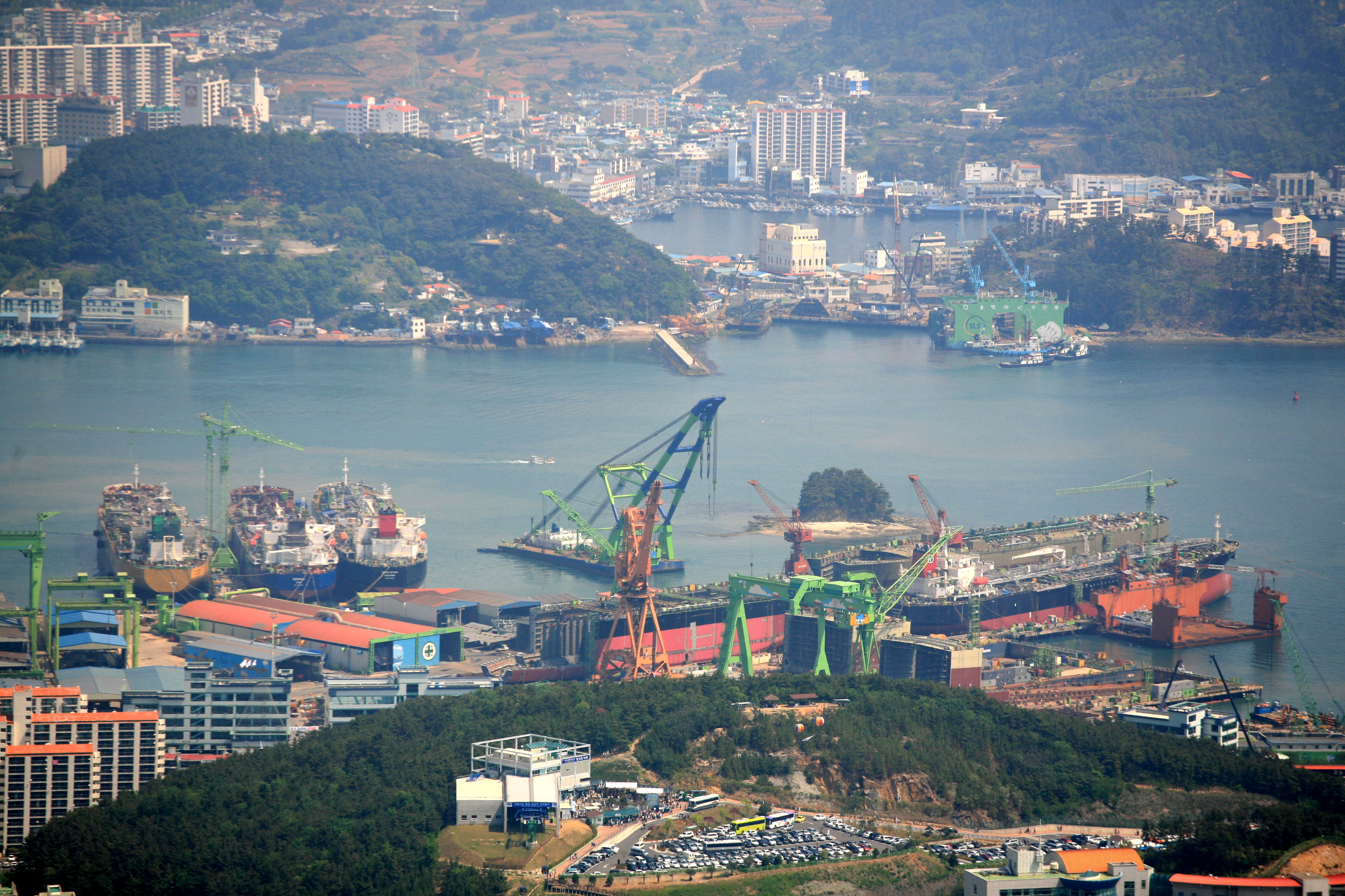 Cityscape of Tongyeong, South Gyeongsang province, South Korea from Hallyeo Waterway Observation dock.